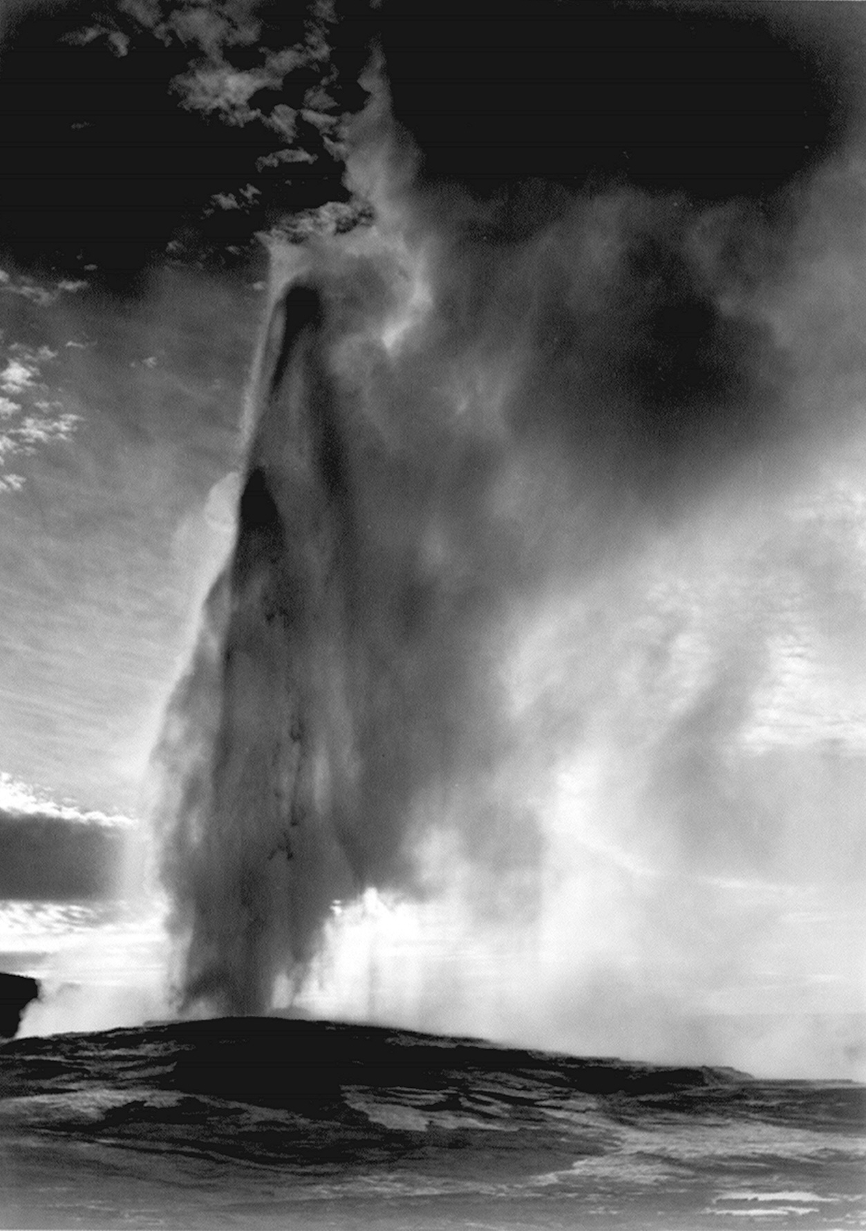 79-AAT-23 Old Faithful Geyser, Yellowstone National Park," taken at dusk dawn from various angles during eruption. Yellowstone 1942, Ansel Adams -May need an ultra high resolution scan to do justice to this print -Mak 04:22, 4 April 2006 (UTC)